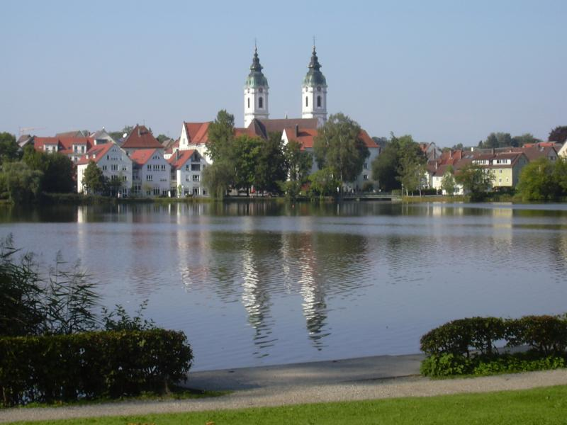 Lake in Bad Waldsee, Germany, with St. Peter's church in the background